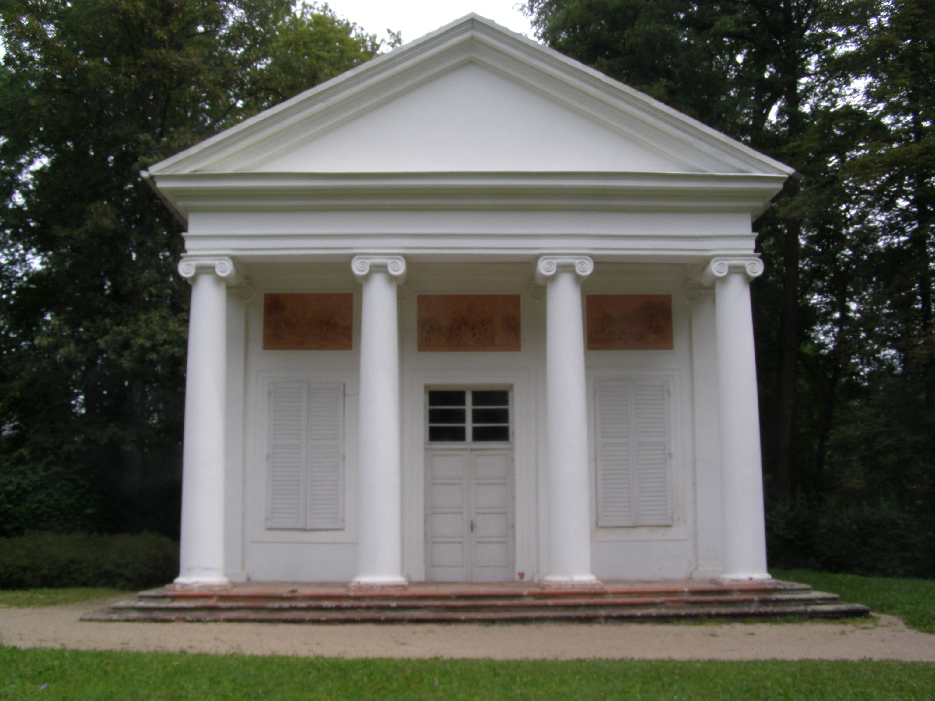 Panův templ, construction in a park of Krásný Dvůr castle.